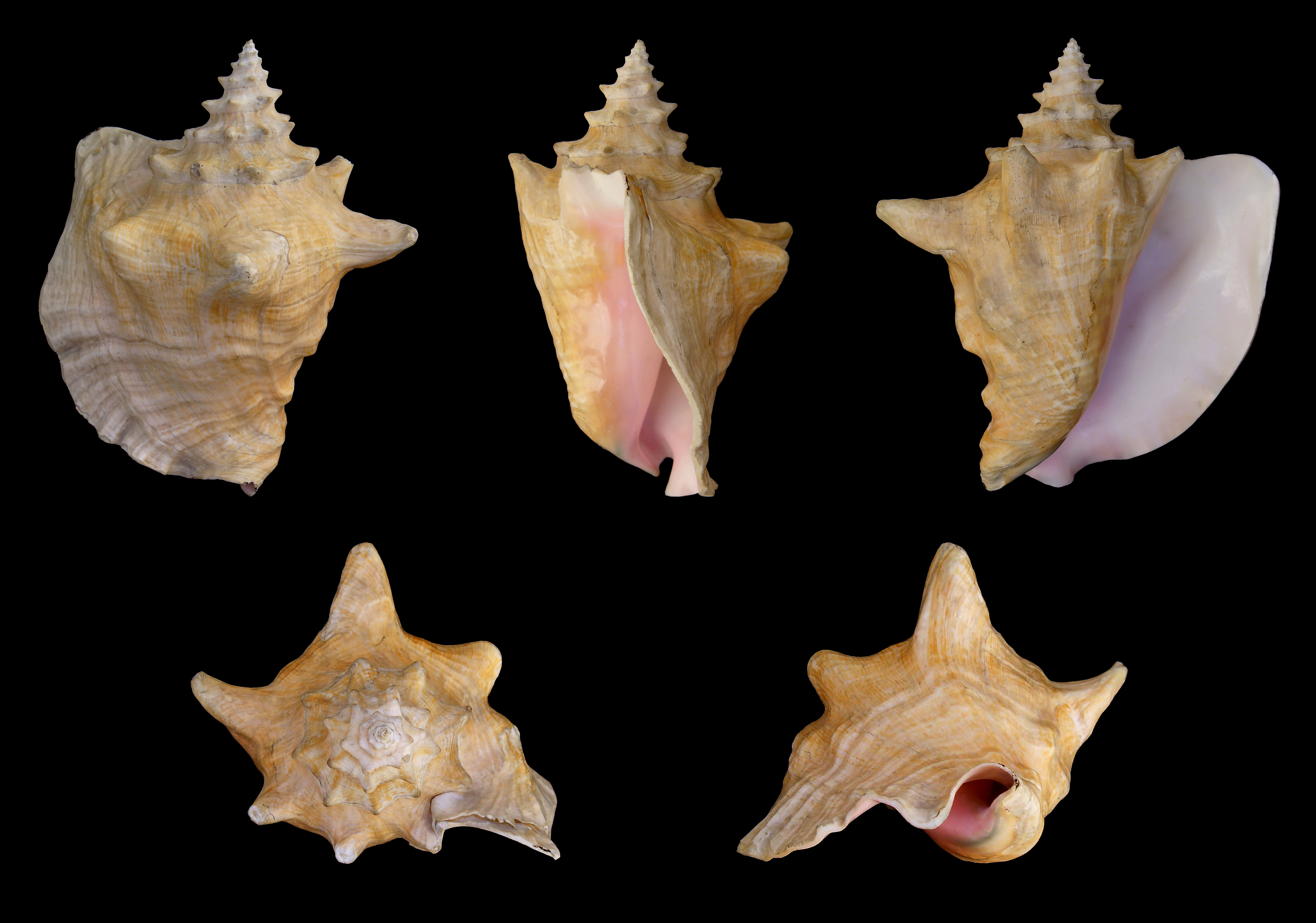 Queen Conch, length 20 cm, originating from the Caribbean. Shell of own collection, therefore not geocoded. From left to right: Dorsal, lateral (right side), ventral, back, and front view.